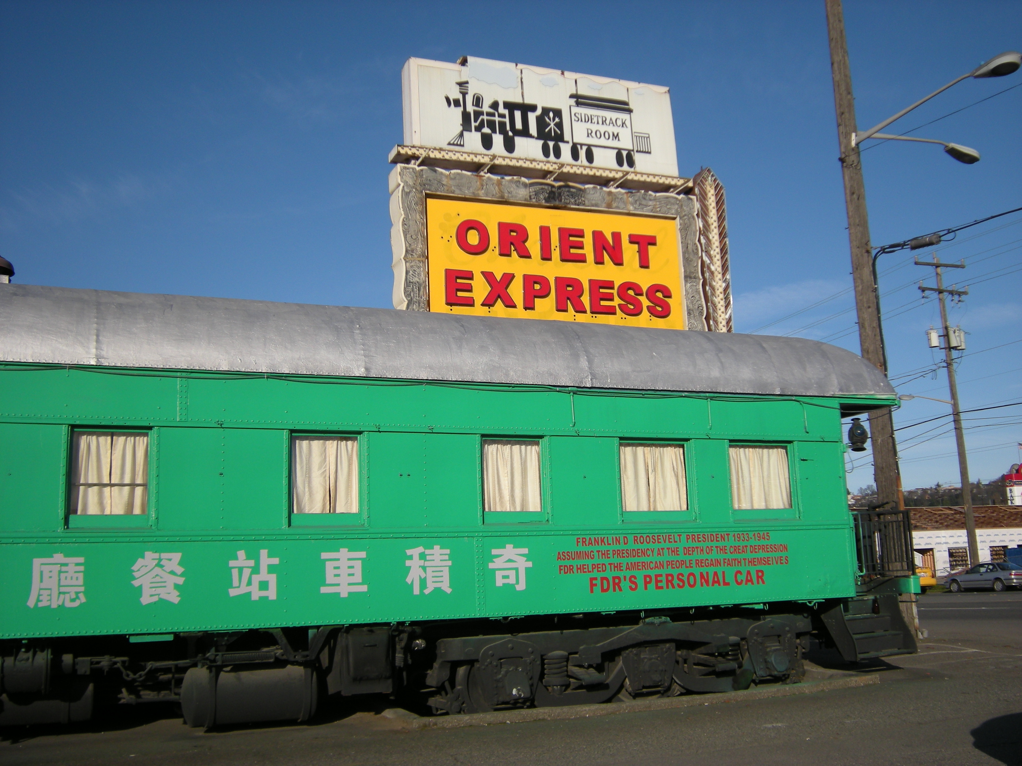 Orient Express (formerly, for 50 years, Andy's Diner), 2963 4th Ave. S., Sodo, Seattle, Washington. The diner, incorporating several railway cars, operated for over 50 years (see Gregory Roberts The end of the line for Andy's Diner in Seattle, Seattle Post-Intelligencer, January 22, 2008). The railway car shown here was used by Franklin Roosevelt in his 1944 re-election campaign.